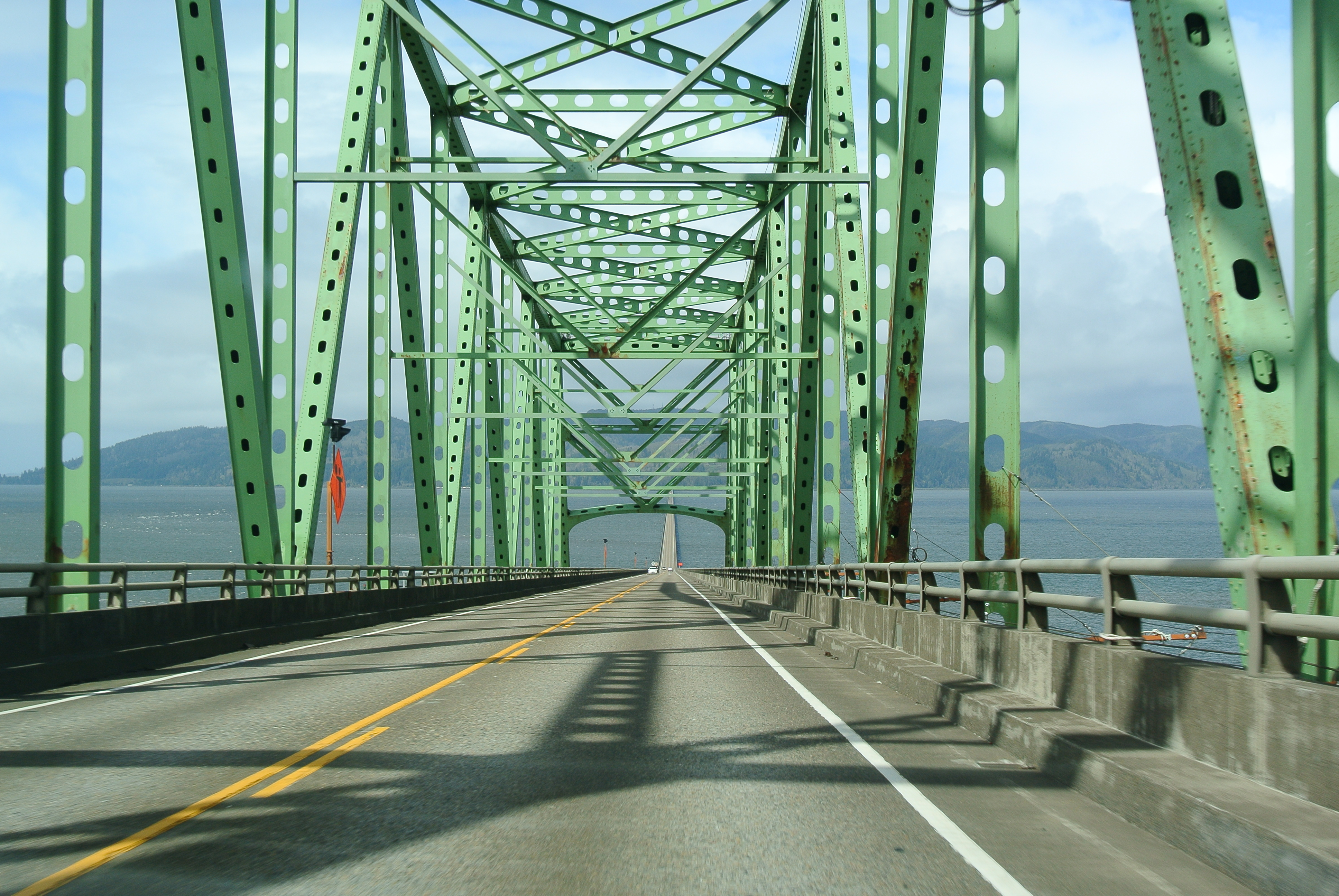 Astoria-Megler Bridge heading north. Nikon 1 V1 + 1 Nikkor VR 10-30mm f/3.5-5.6